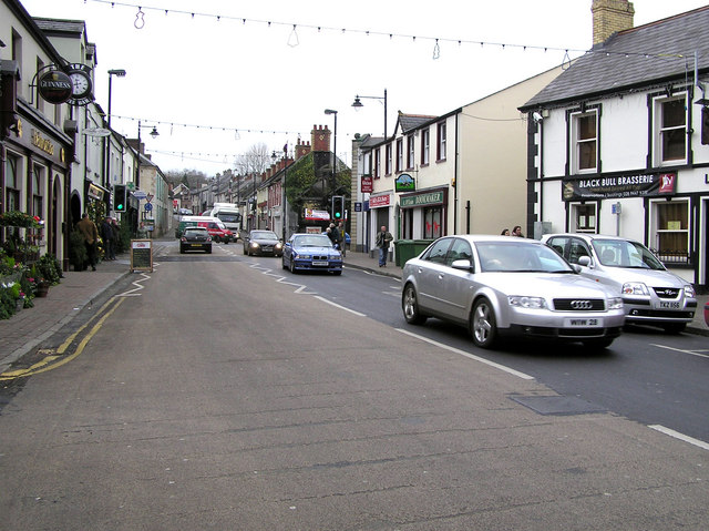 Randalstown, County Antrim Looking up the very busy Castle Road to the north-west and leading towards the Portglenone Road